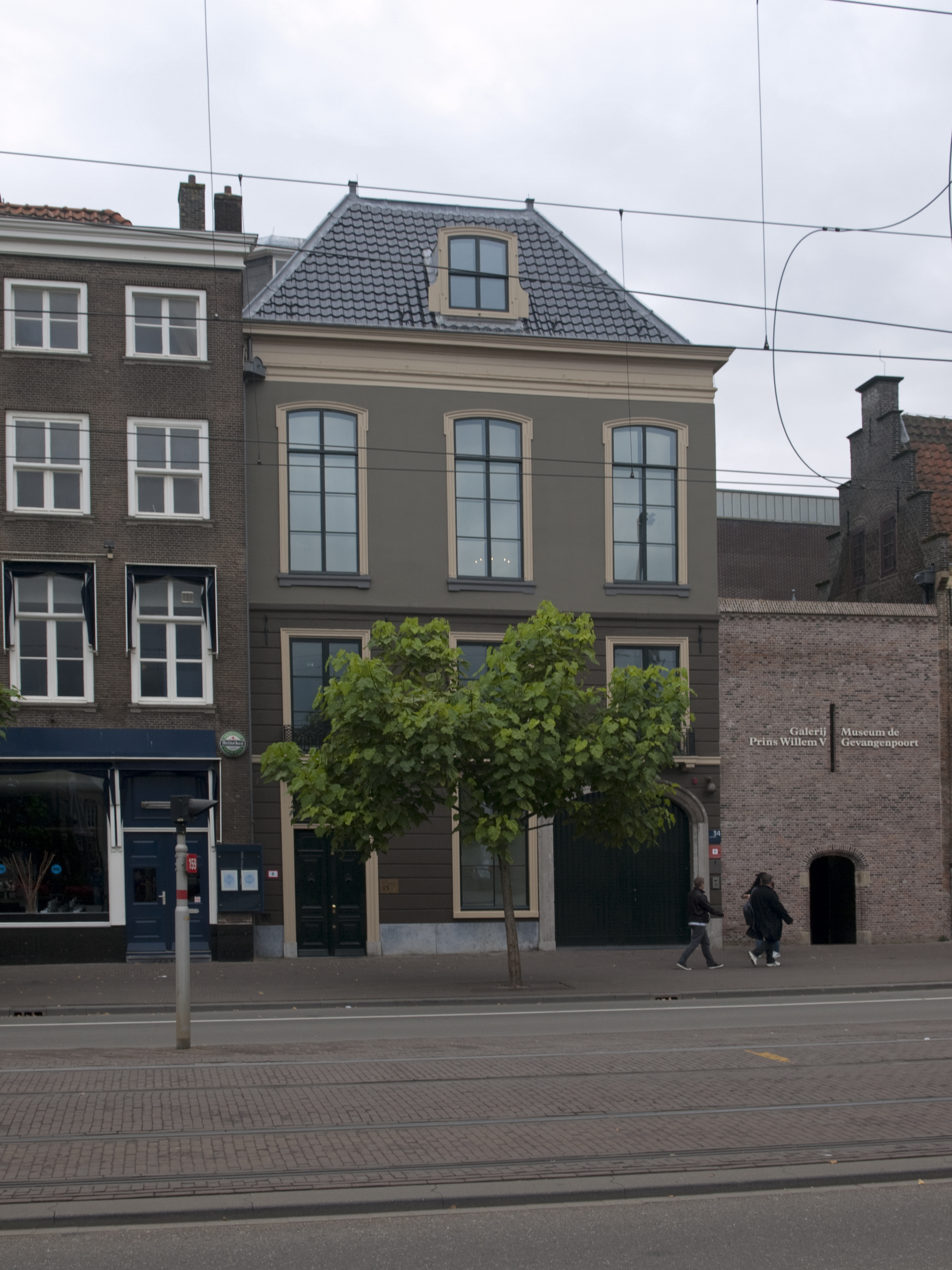 Den Haag, Buitenhof 34 (center)